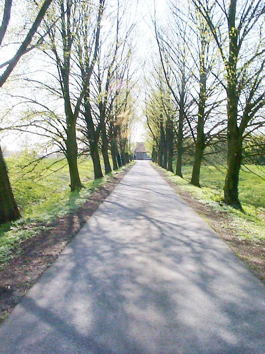 Avenue near a little stately home near Ahlen, Germany.